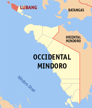 Map of Occidental Mindoro showing the location of Lubang